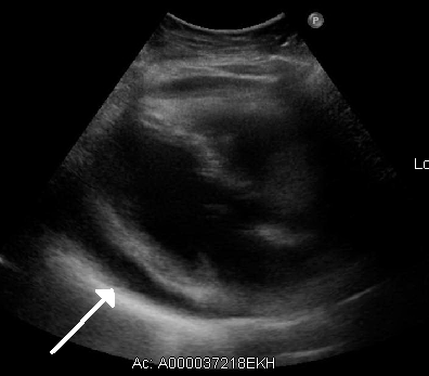 Fluid around the heart as seen on ultrasound